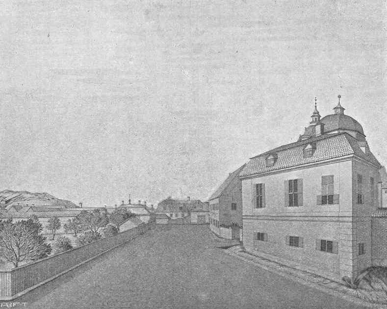 View of Akademitorget (the "Academy square") in Åbo (Turku), Finland. To the right buildings, belonging to the former Academy of Åbo and located in the perimeter around the Åbo cathedral. From the Swedish Wikipedia, and originally from O. M. Reuter, Finland i ord och bild (Stockholm 1901), p. 314.